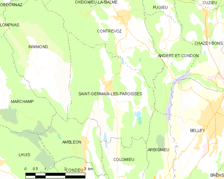 Map of French commune: Saint-Germain-les-Paroisses Map commune FR insee code 01358.png